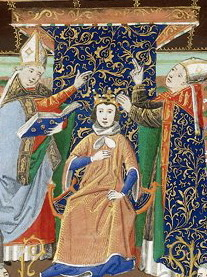 Coronation of Henry II, King of Castile. (British Library, Harley 4379 f.112v)